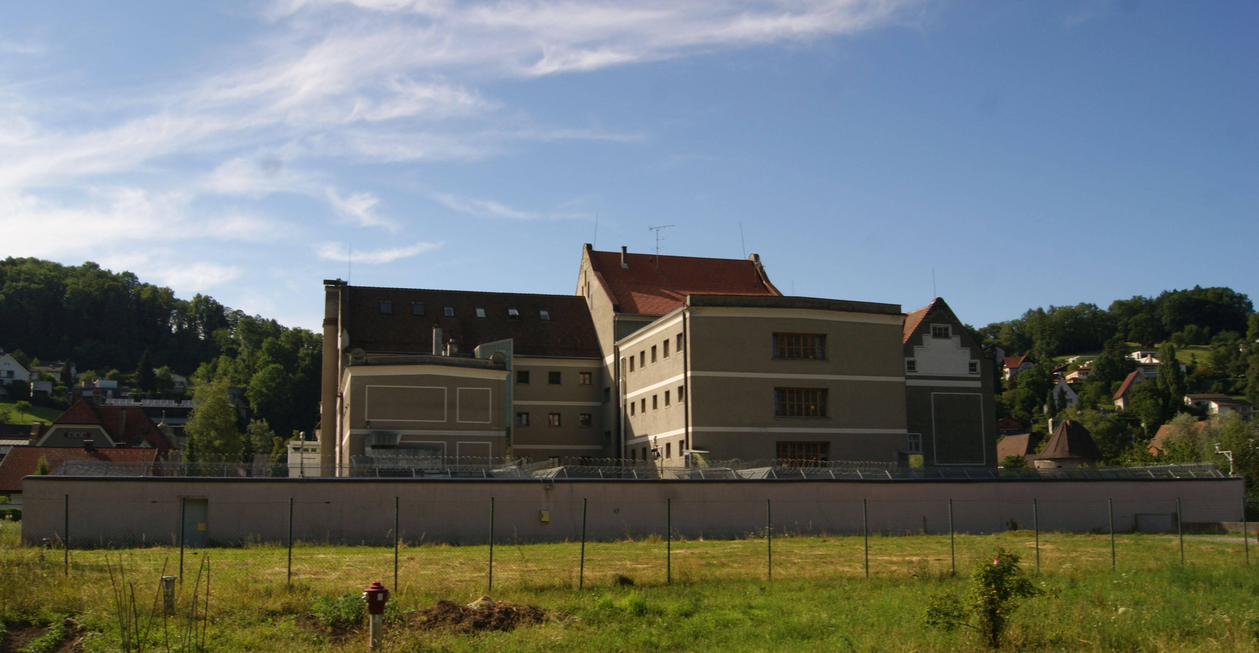 At the rear of the regional court in Feldkirch (Vorarlberg, Austria), the prison (Justizanstalt).